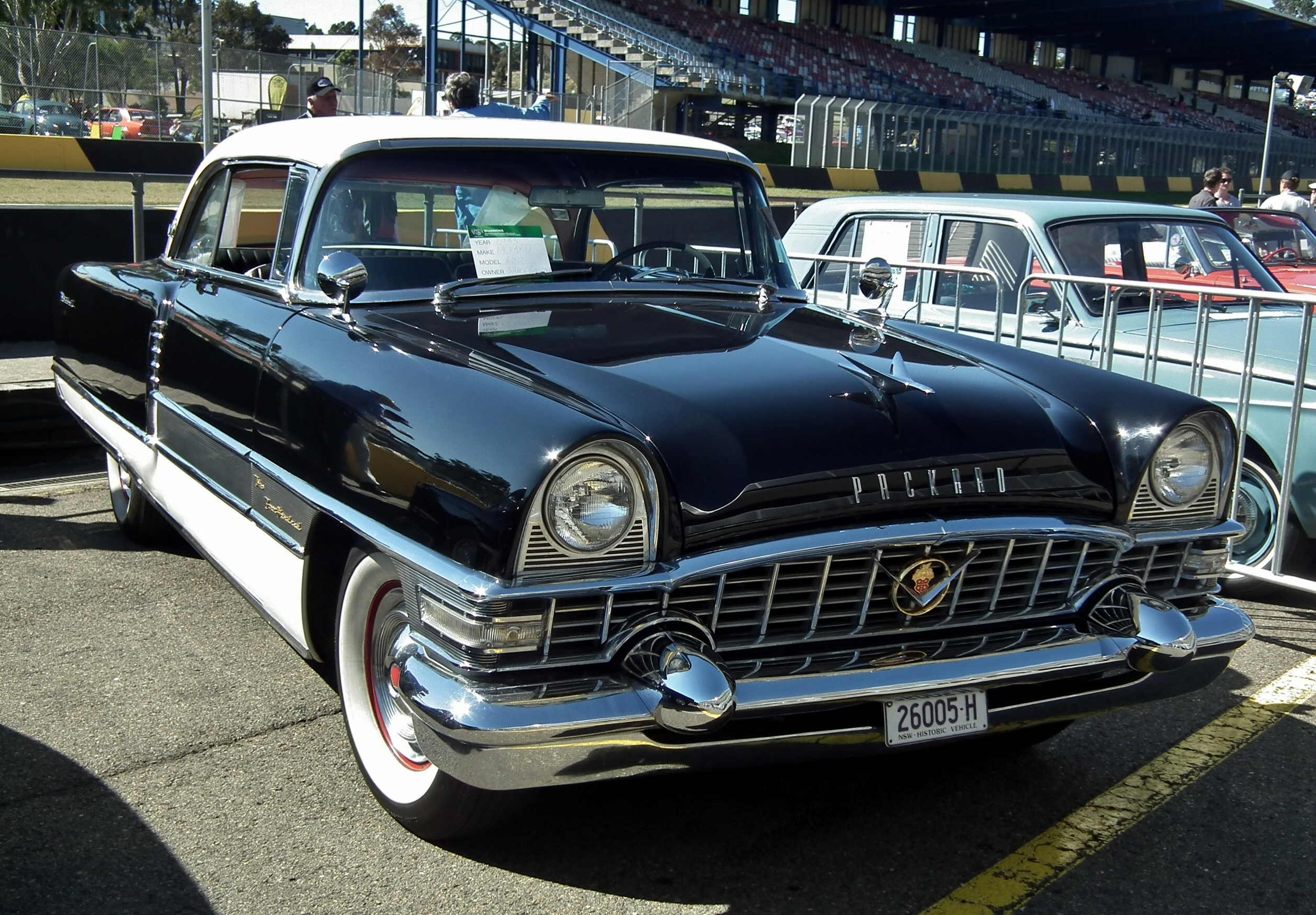 1955 Packard 400 coupe. Taken at the 2013 Shannon's Eastern Creek Classic display day, held at Sydney Motorsport Park.